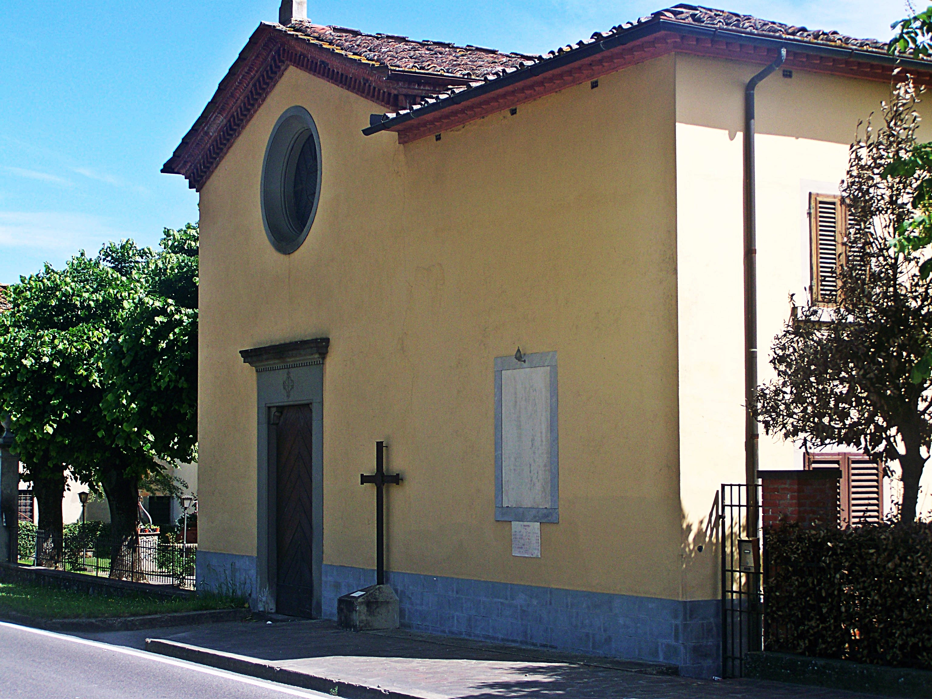 little church